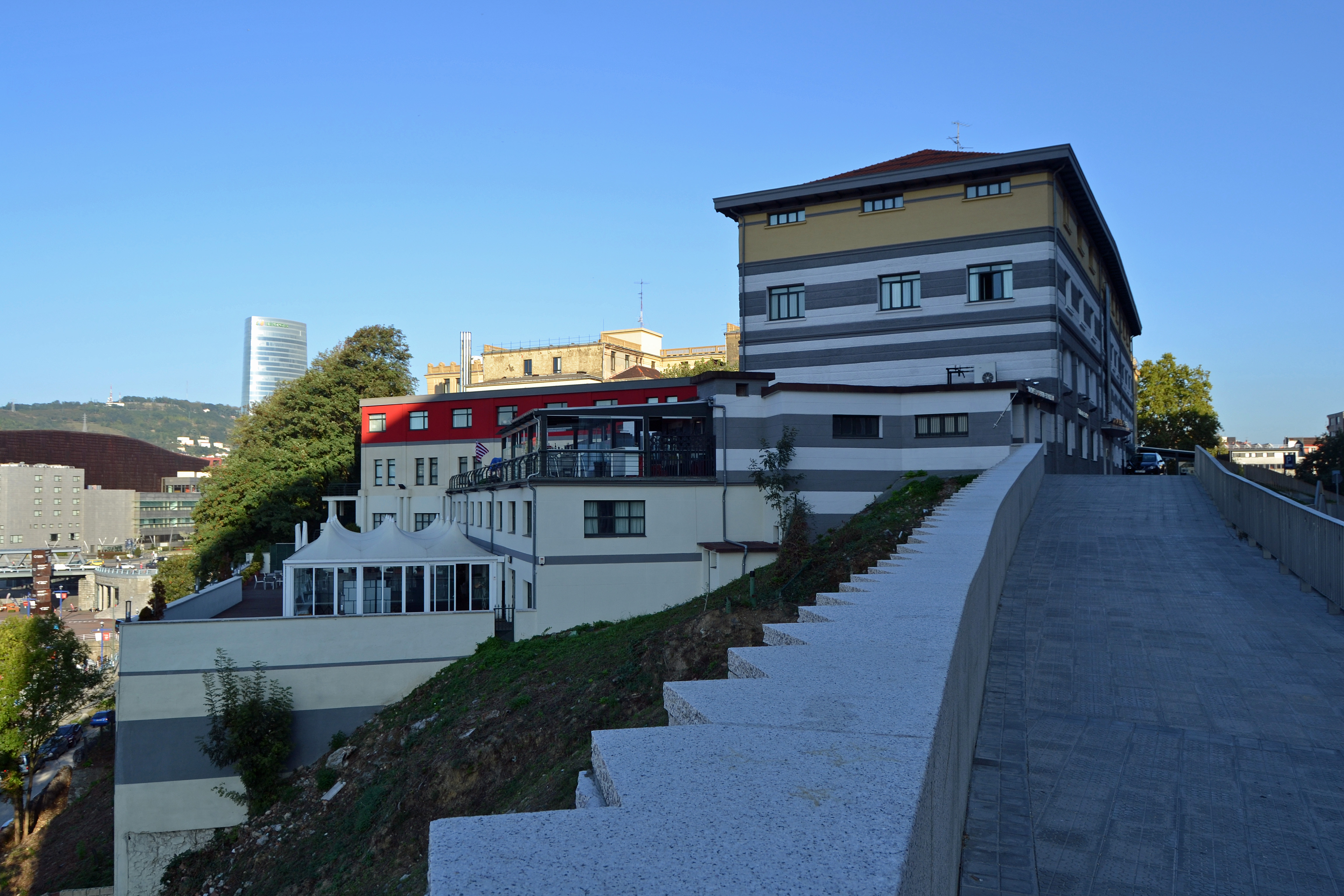 Hotel Hesperia Zubialde, Bilbao. Bizkaia, Basque Country.